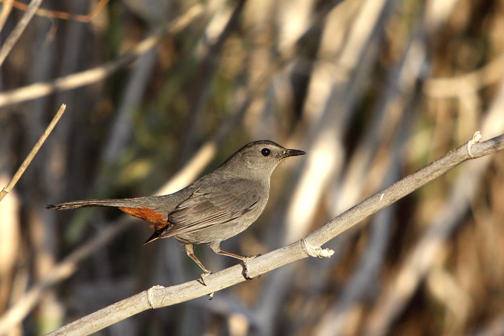 Grey Catbird (Dumetella carolinensis) at Morro Rock (California, USA). The Grey Catbird is so named because sometimes it's call is like that of a cat. They are very rare visitors to the Morro Bay area.